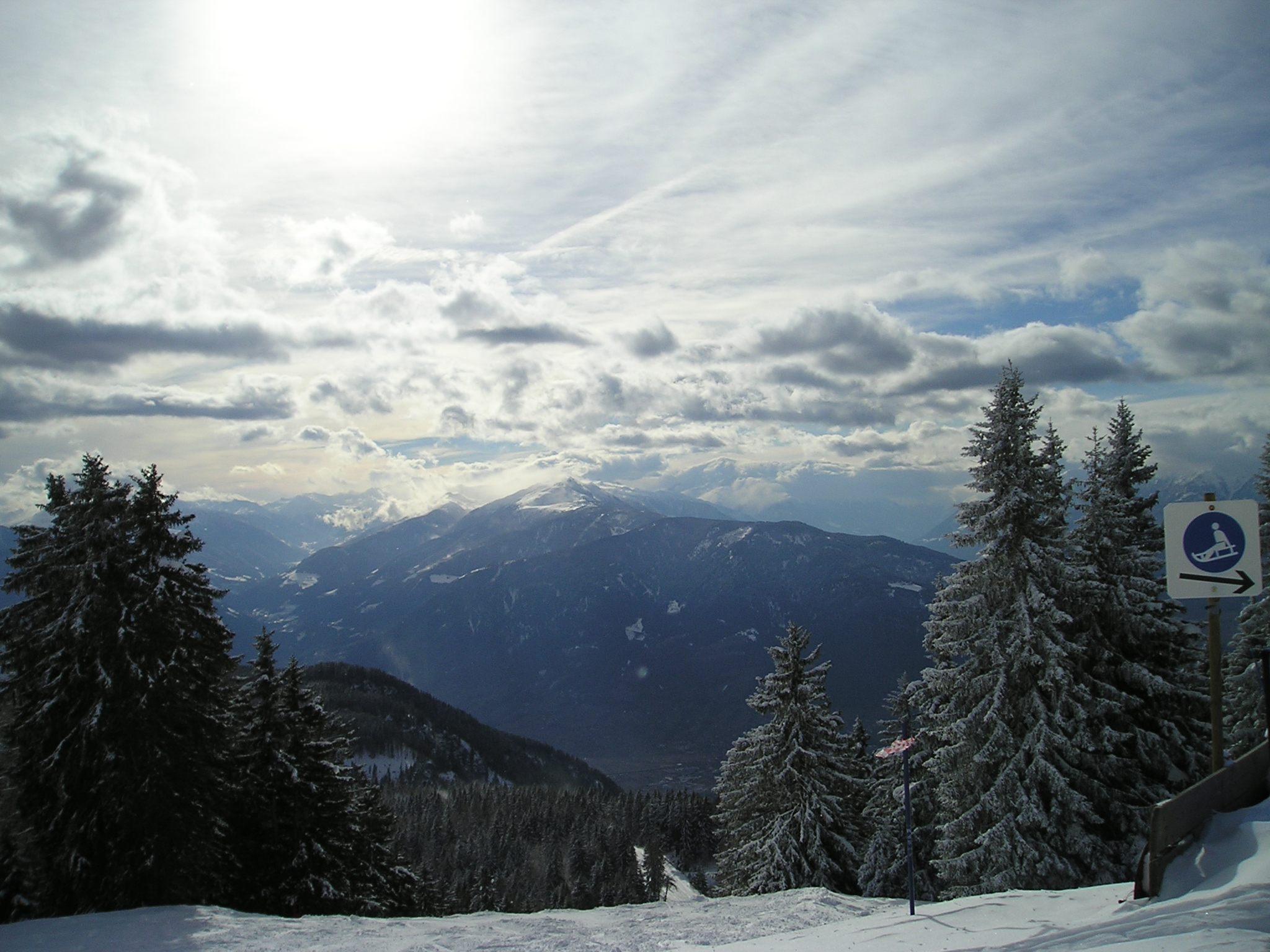 View of sun, clouds, mountains and trees from the Mount Ivigna-Ifinger, near Merano-Meran.